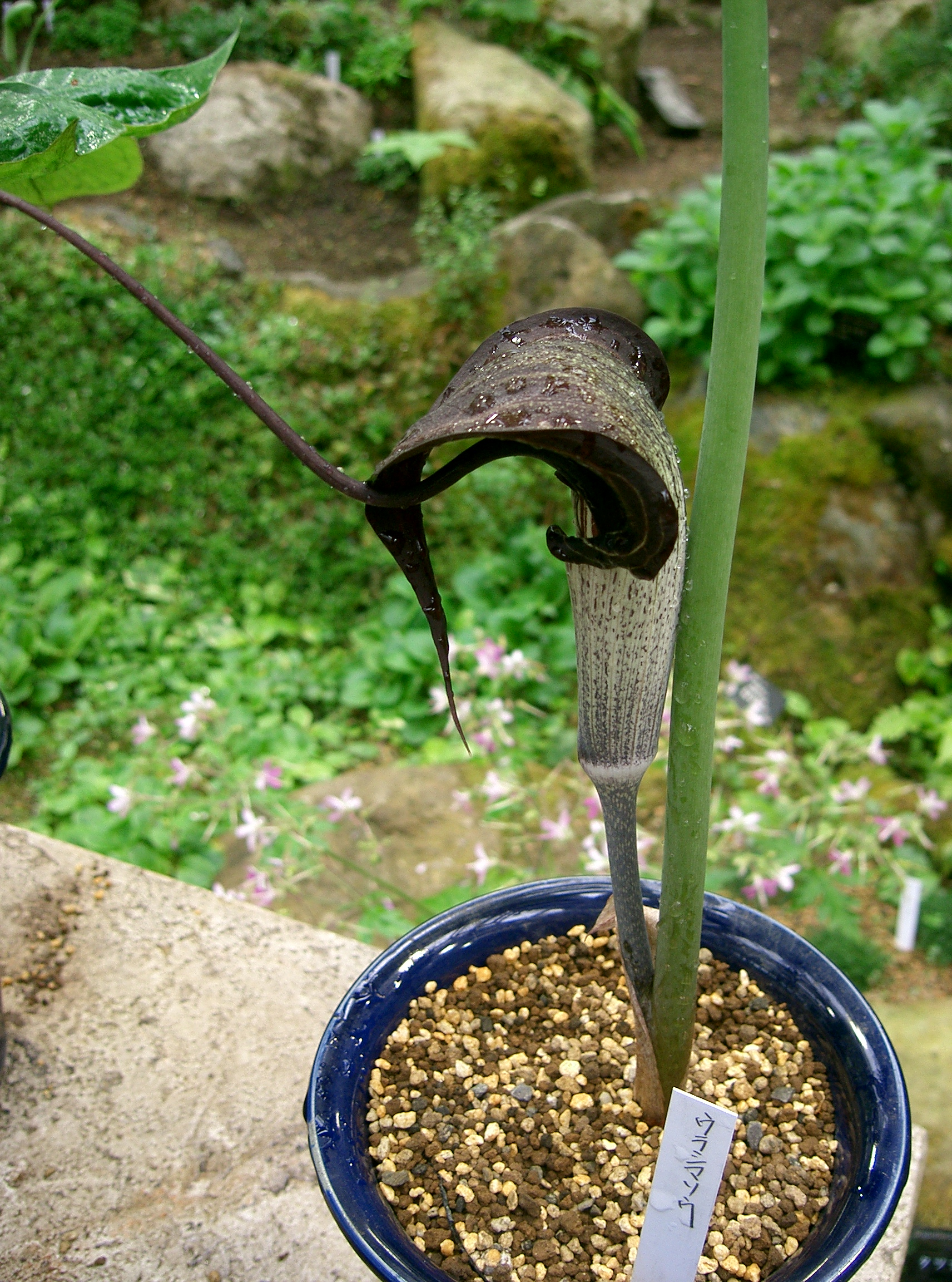 Scientific name Arisaema thunbergii subsp. urashima